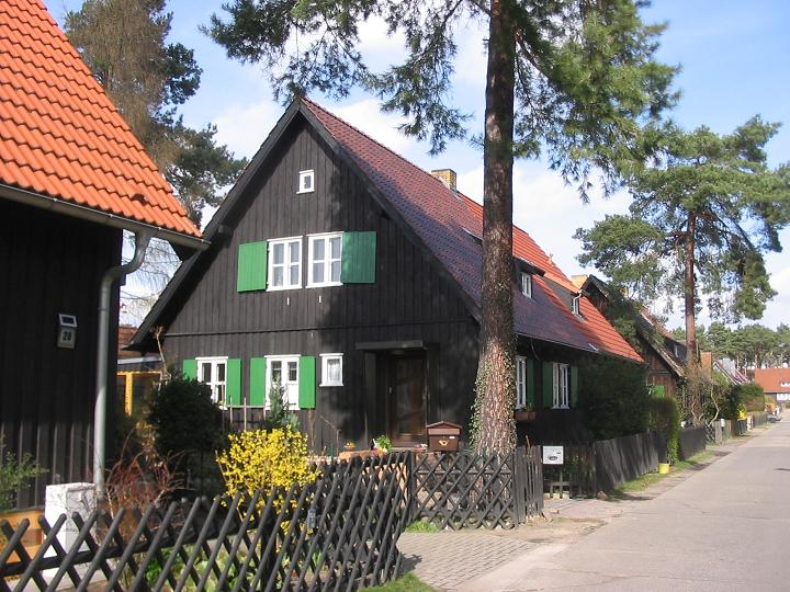 „Holzhaussiedlung“ (german for: wooden house estate) in Ludwigsfelde, built in 1944. Ludwigsfelde is a town in the district Teltow-Fläming, state Brandenburg, Germany.